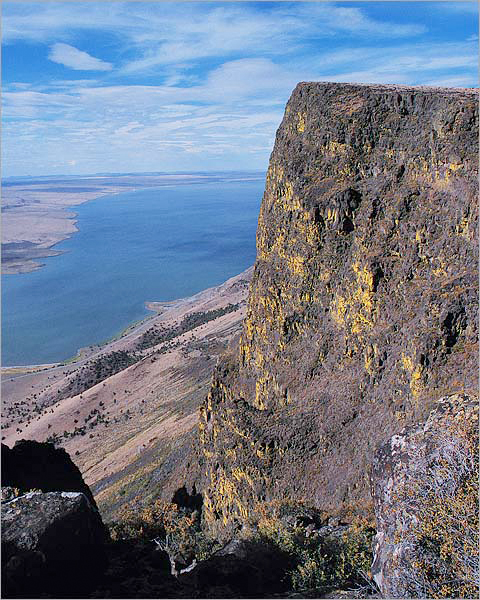 View of Abert Lake from Abert Rim